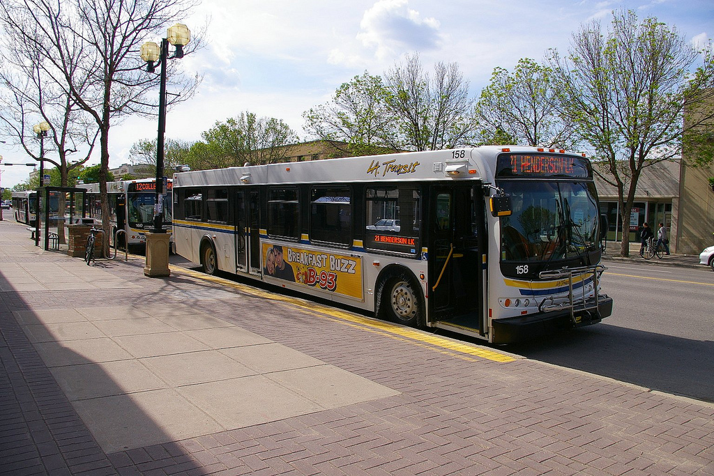 Taken by me on the SW corner of 4 Avenue S and 7 Street in June 2008, facing west.